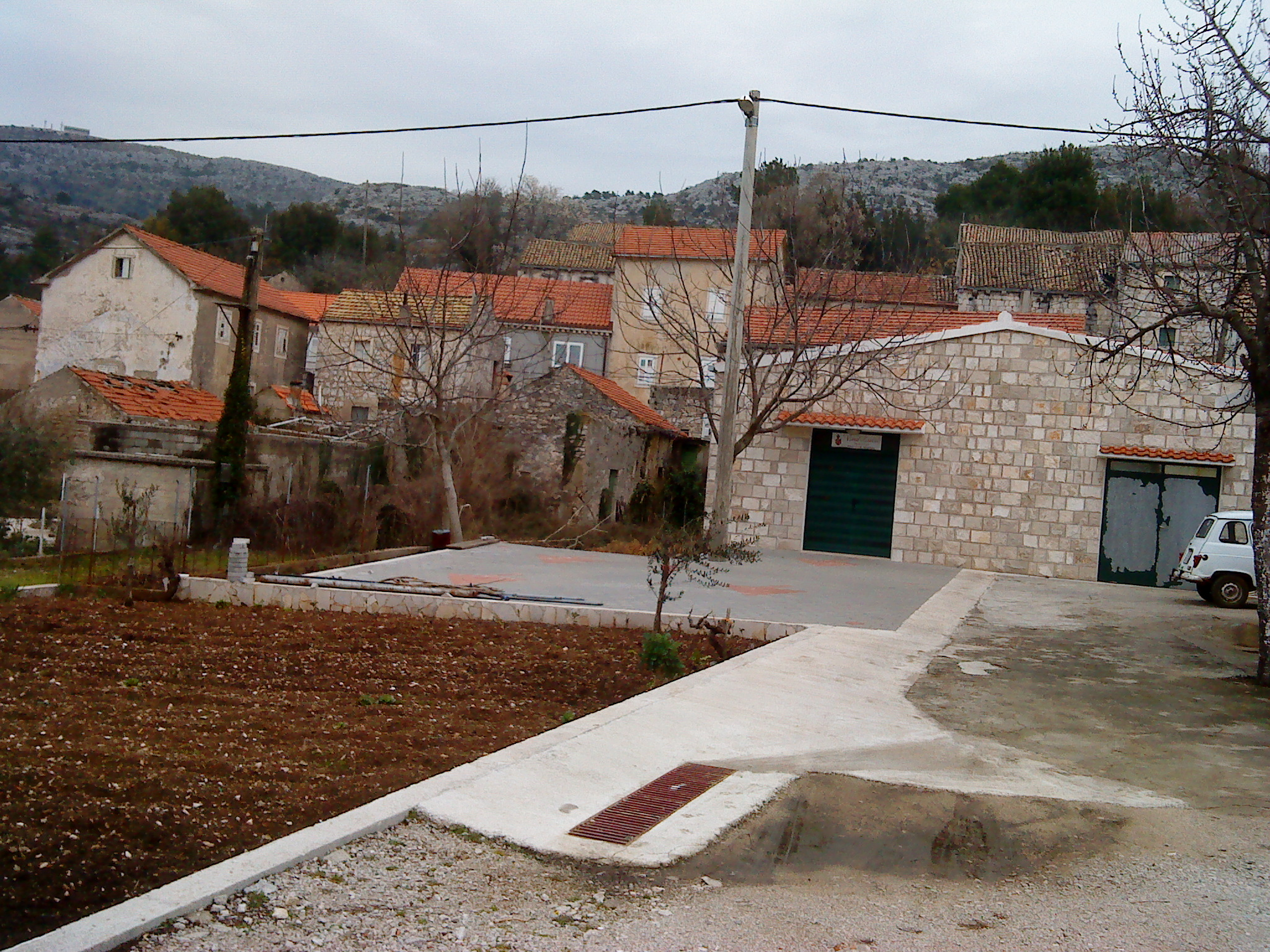 Village Pijavičino, Pelišac